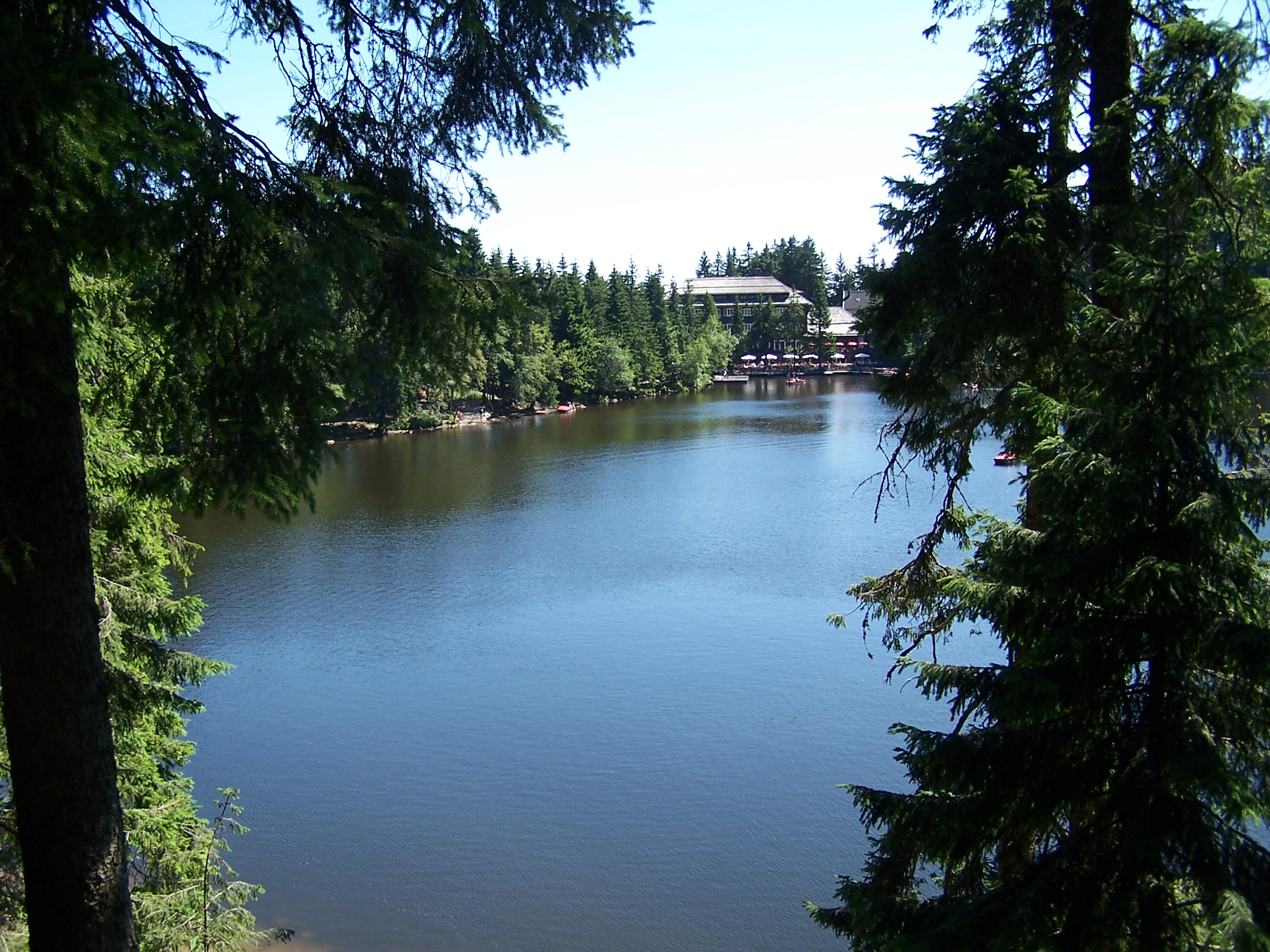 The Mummelsee near Seebach in the Black Forest